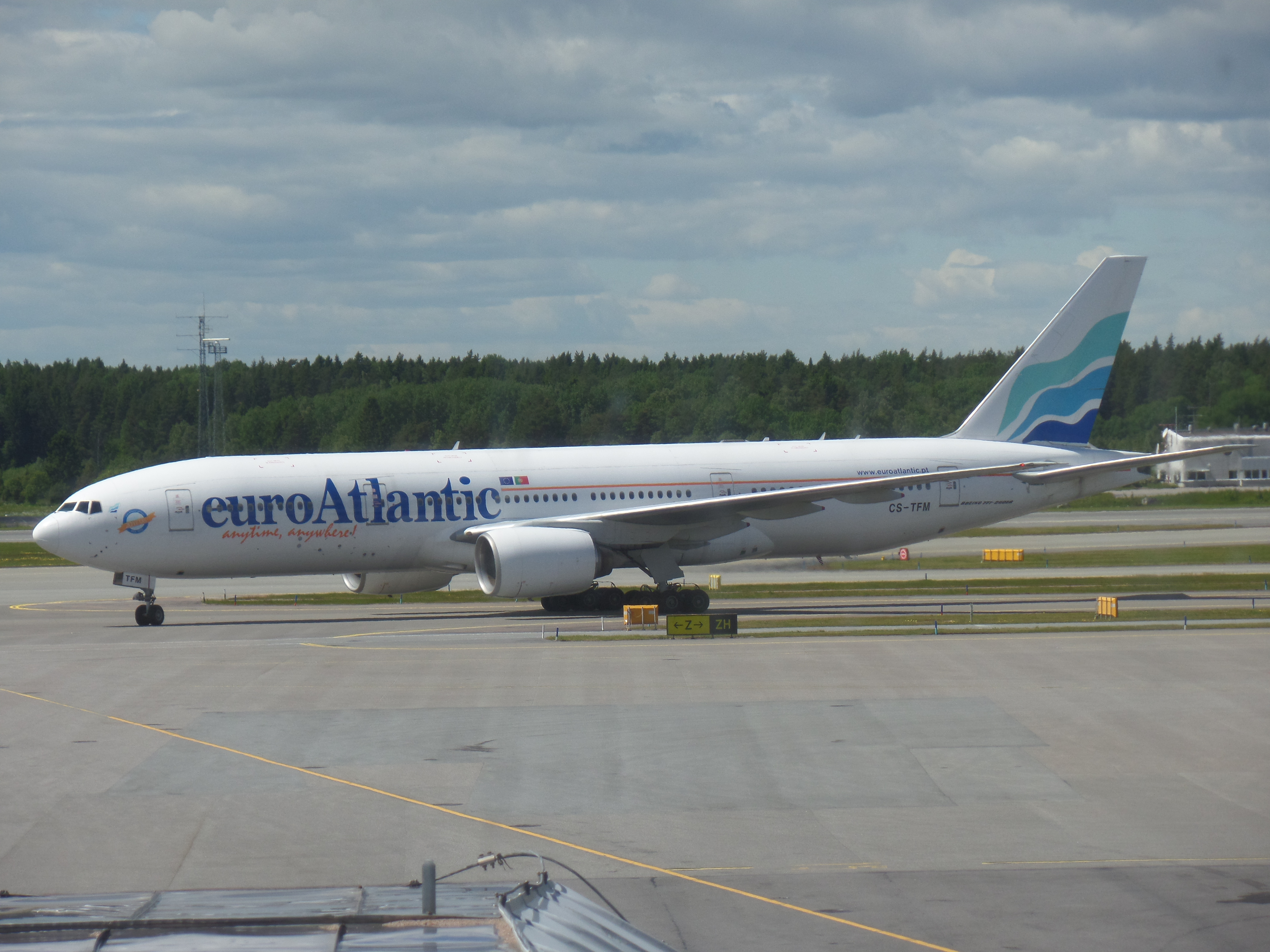 EuroAtlantic Airways Boeing 777-212ER CS-TFM at Stockholm-Arlanda Airport on 15 June, 2015.